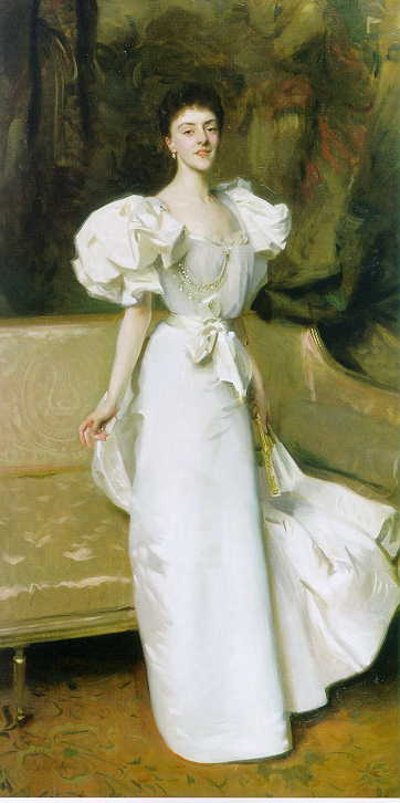 Countess Clary Aldringen (Therese Kinsky) John Singer Sargent -- American painter 1896 Hirschl & Adler Galleries, New York Oil on canvas 228.5 x 122 cm (90 x 48 in) Inscription: (Lower left:) John S. Sargent 1896 signed Jpg: Friend of the JSS Gallery